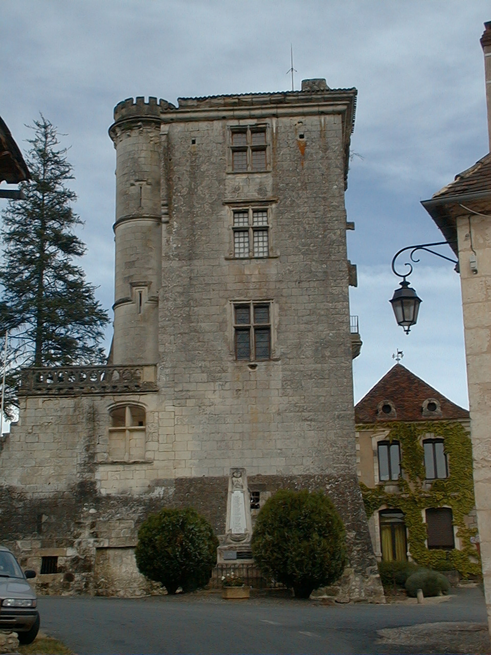 Saint-Georges-de-Montclard